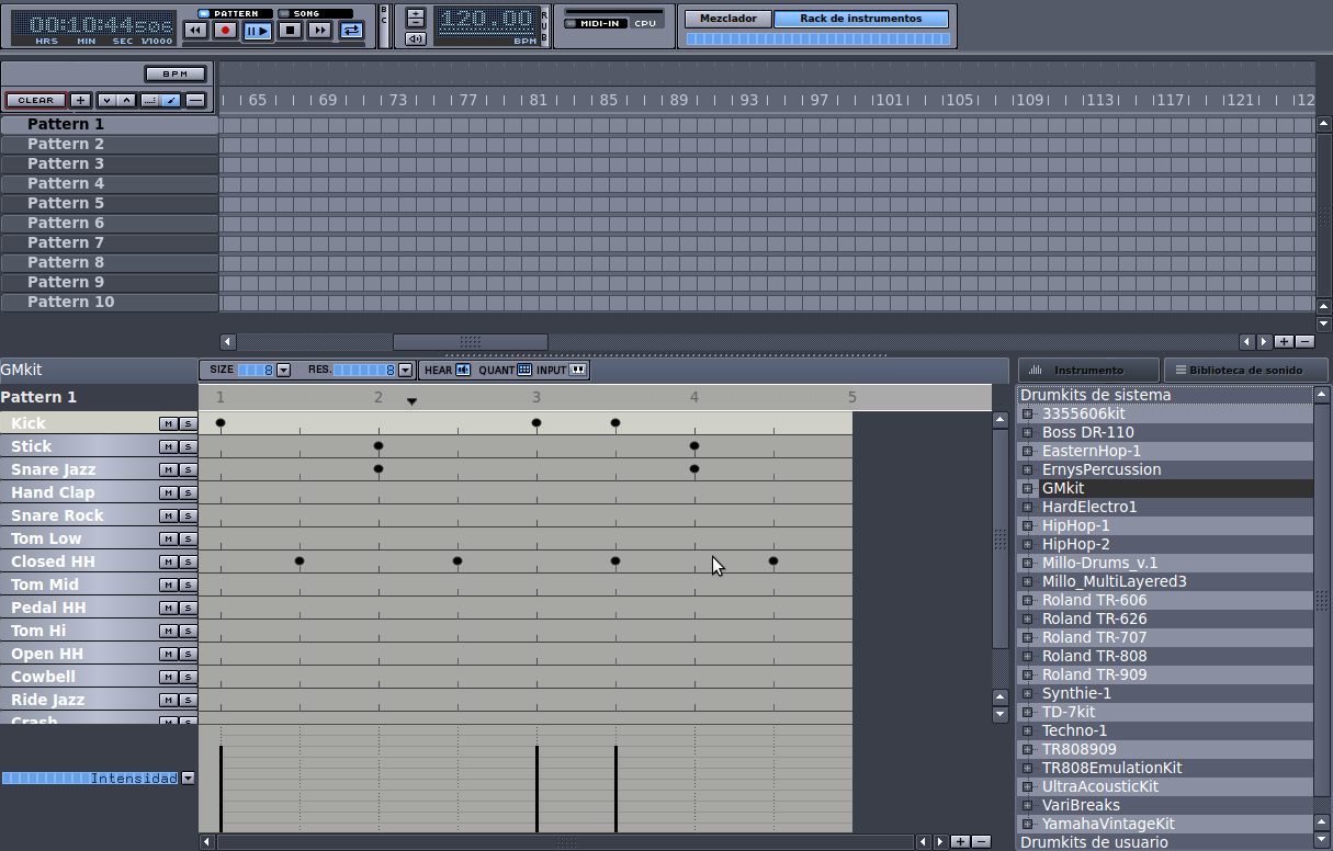 Hydrogen main window